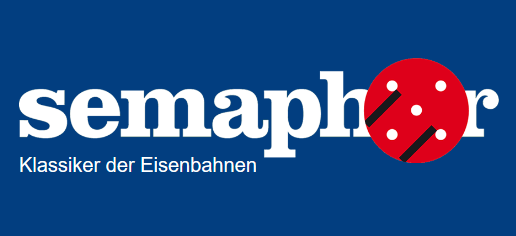 Logo of the Semaphor newspaper, Switzerland.